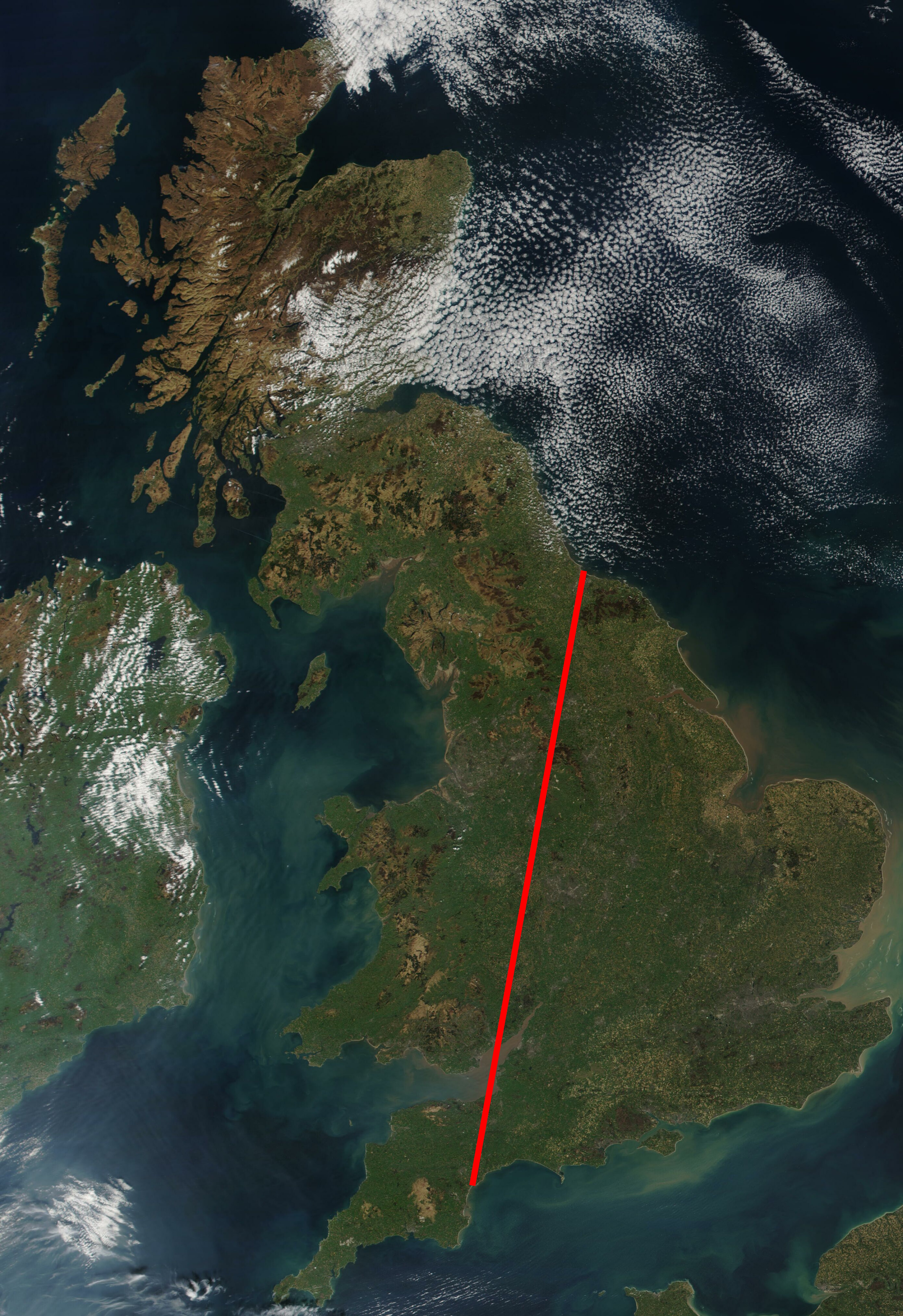 Satellite image of Great Britain and Northern Ireland in April 2002. Edited to add Tees Exe line.